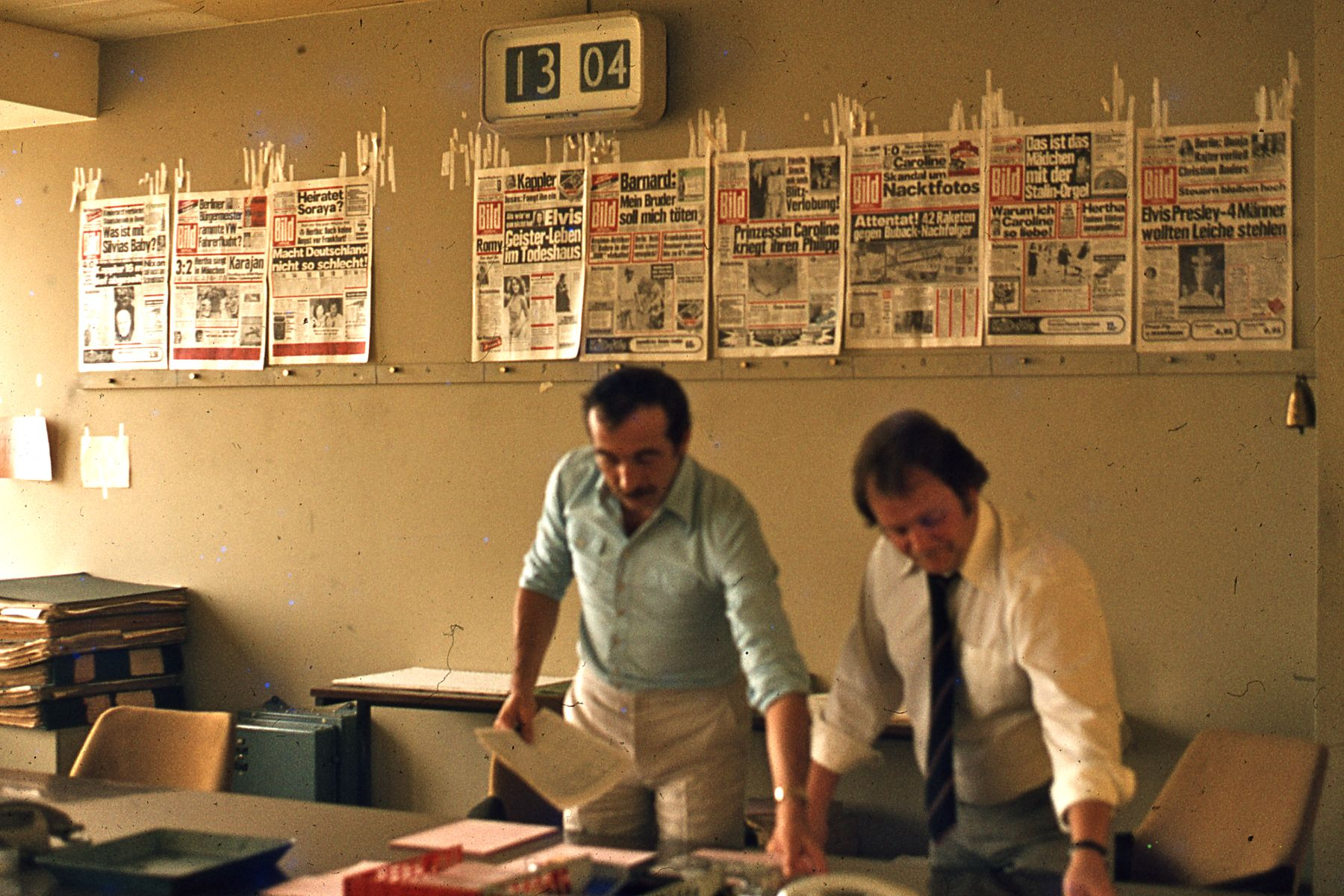 Two men are working on the layout of the Bild newspaper, with samples of previous front pages affixed to a wall behind them, 1977.